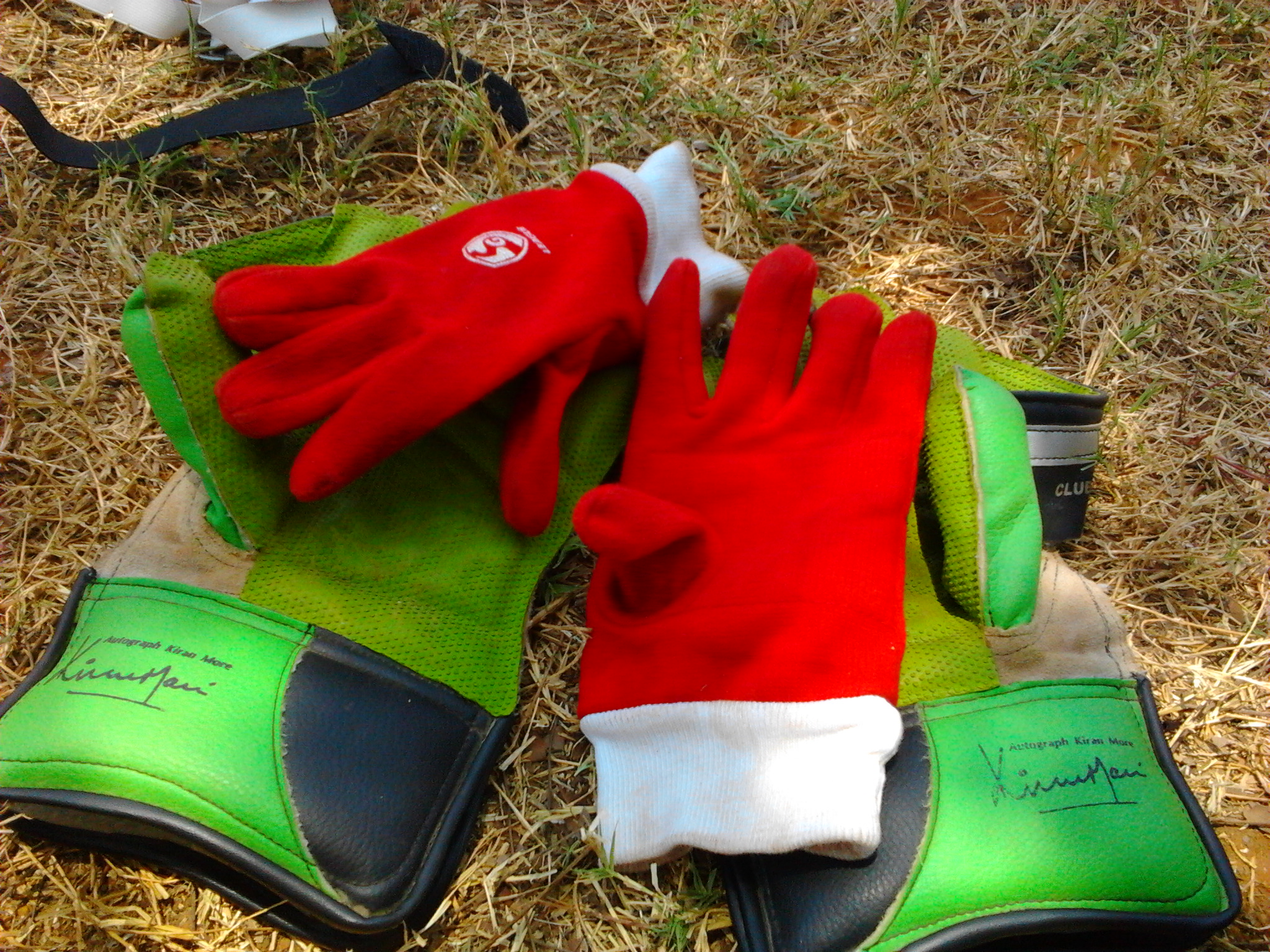 Photoed using Samsung Wave 525.